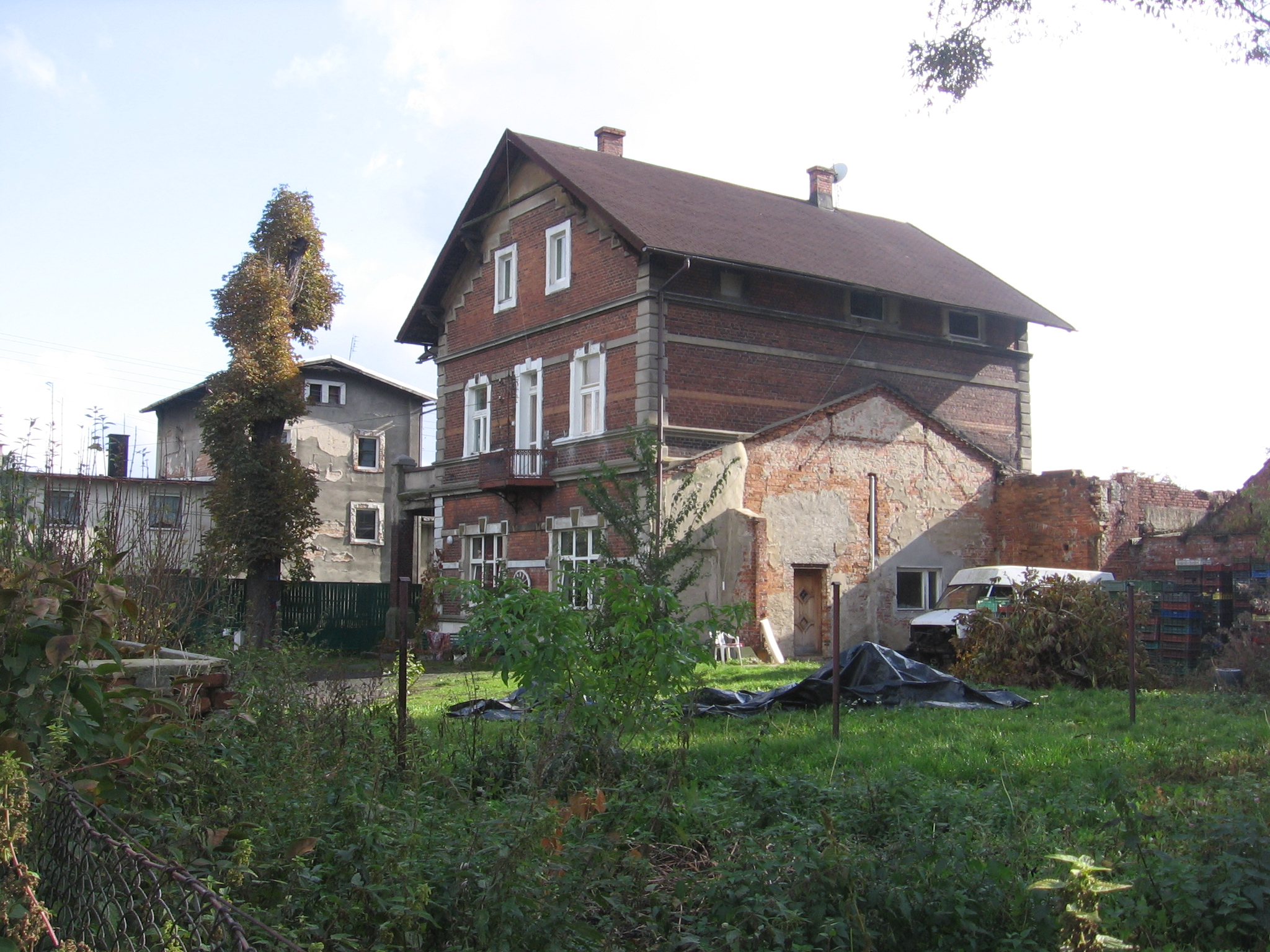 Wrocław, settlement Nowy Dom: 11, Opatowicka street